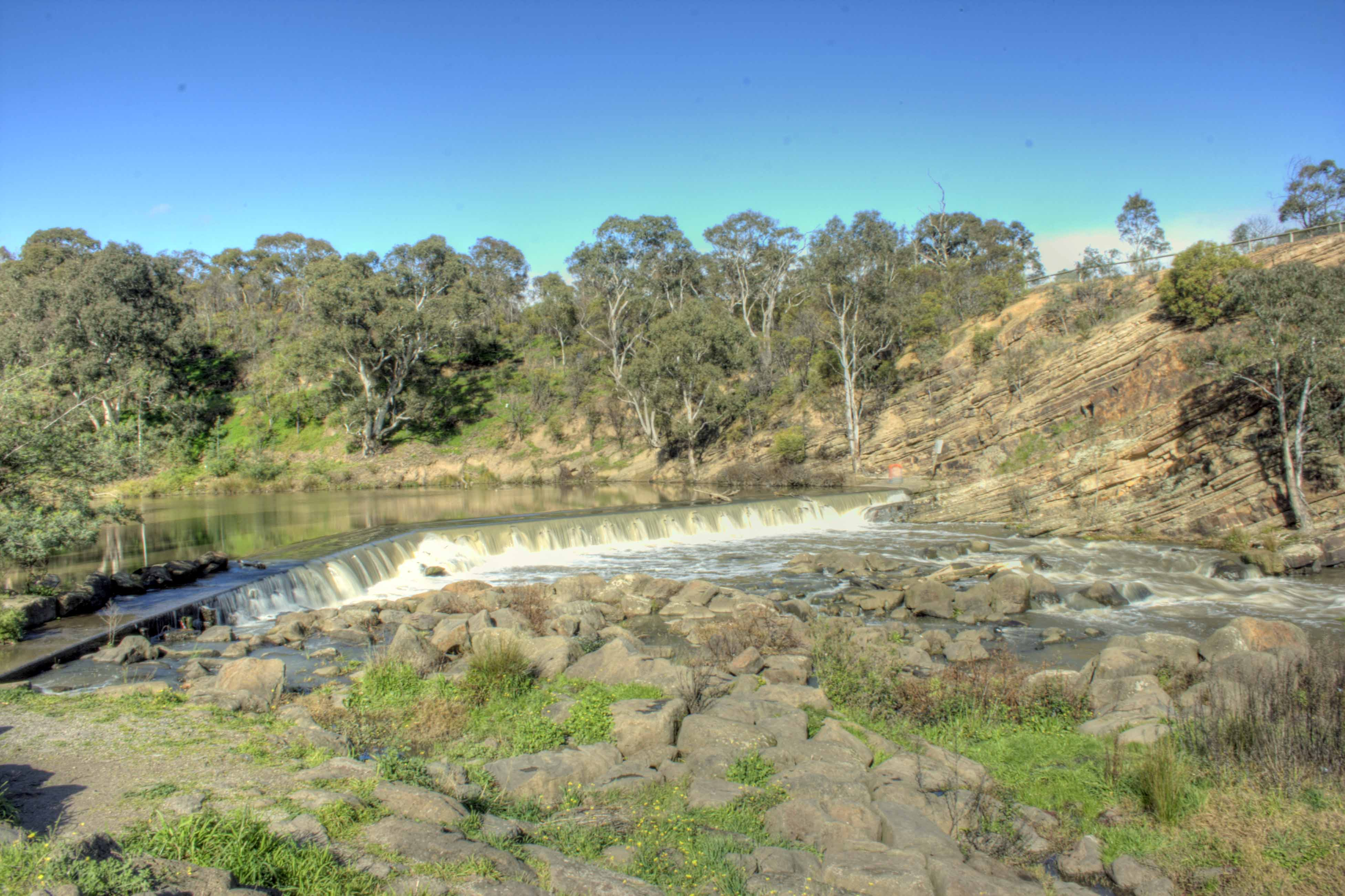 Dights Falls along the Capital City Bike Trail.